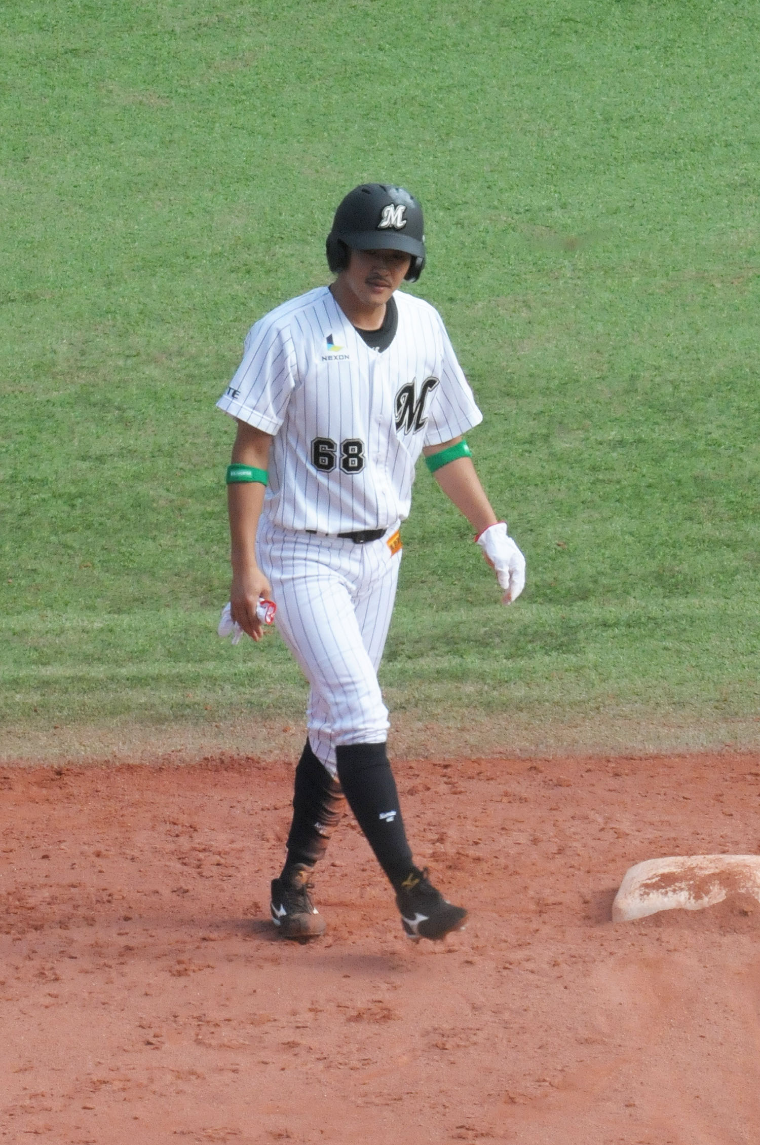 Keisuke Hayasaka, infielder of the Chiba Lotte Marines, at QVC Marine Field.